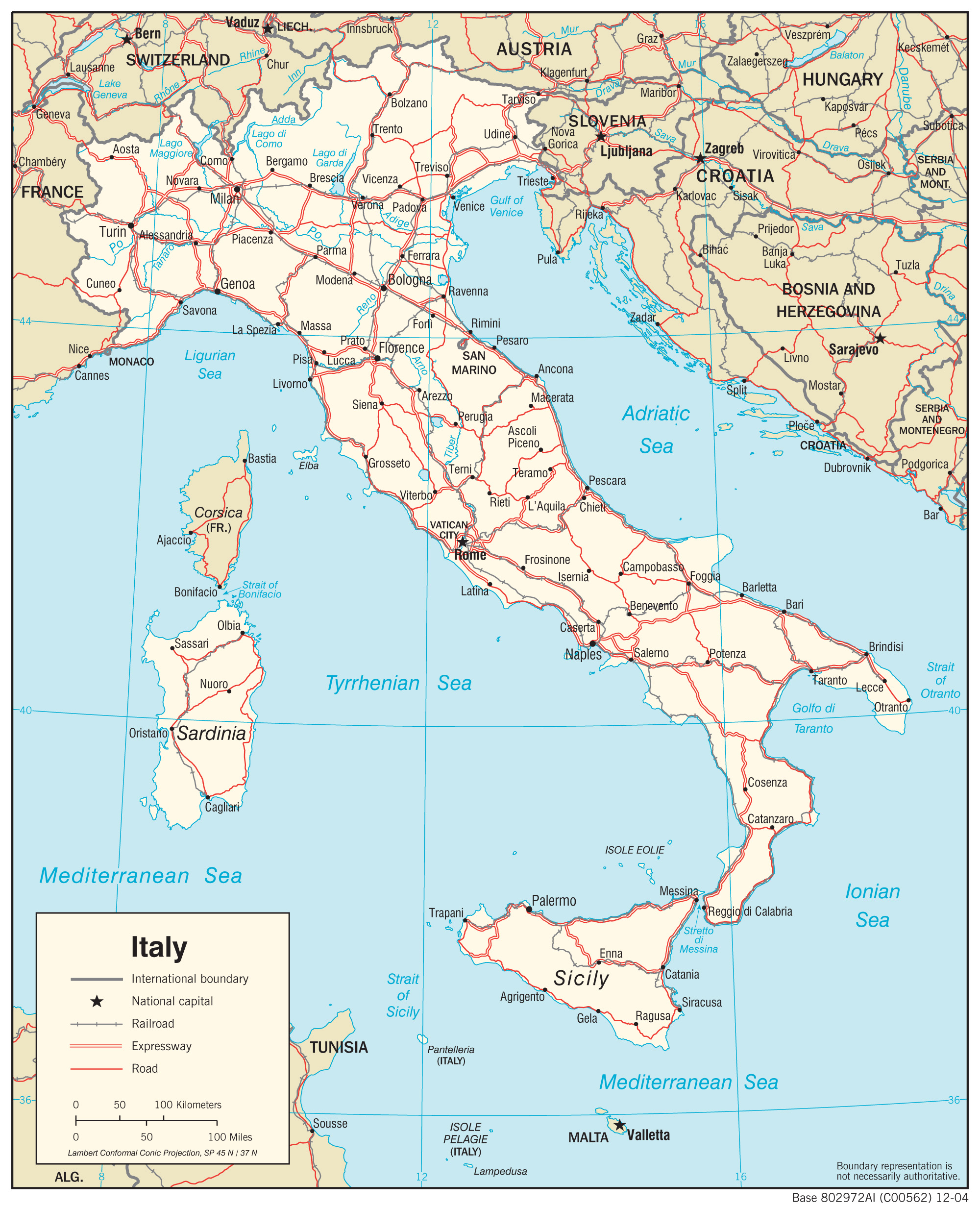 Transport system in Italy, 2005.